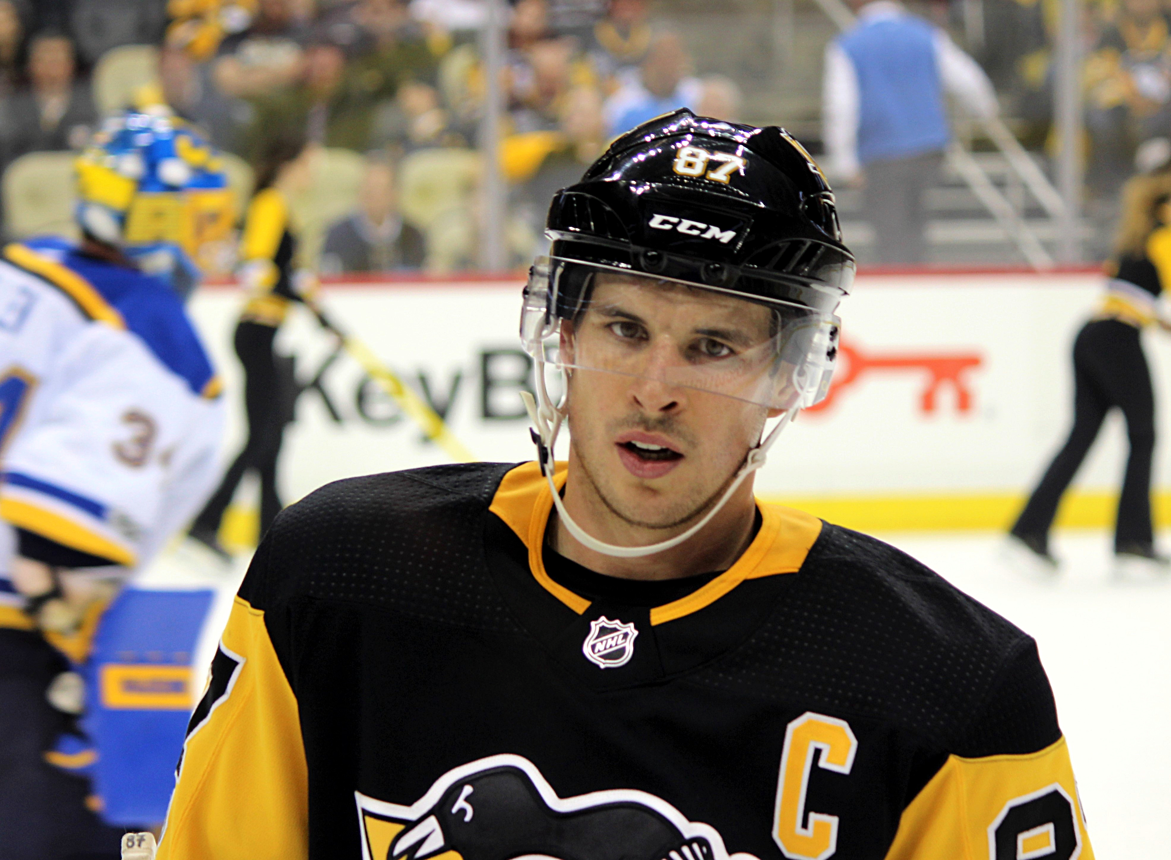 Pittsburgh Penguins captain Sidney Crosby